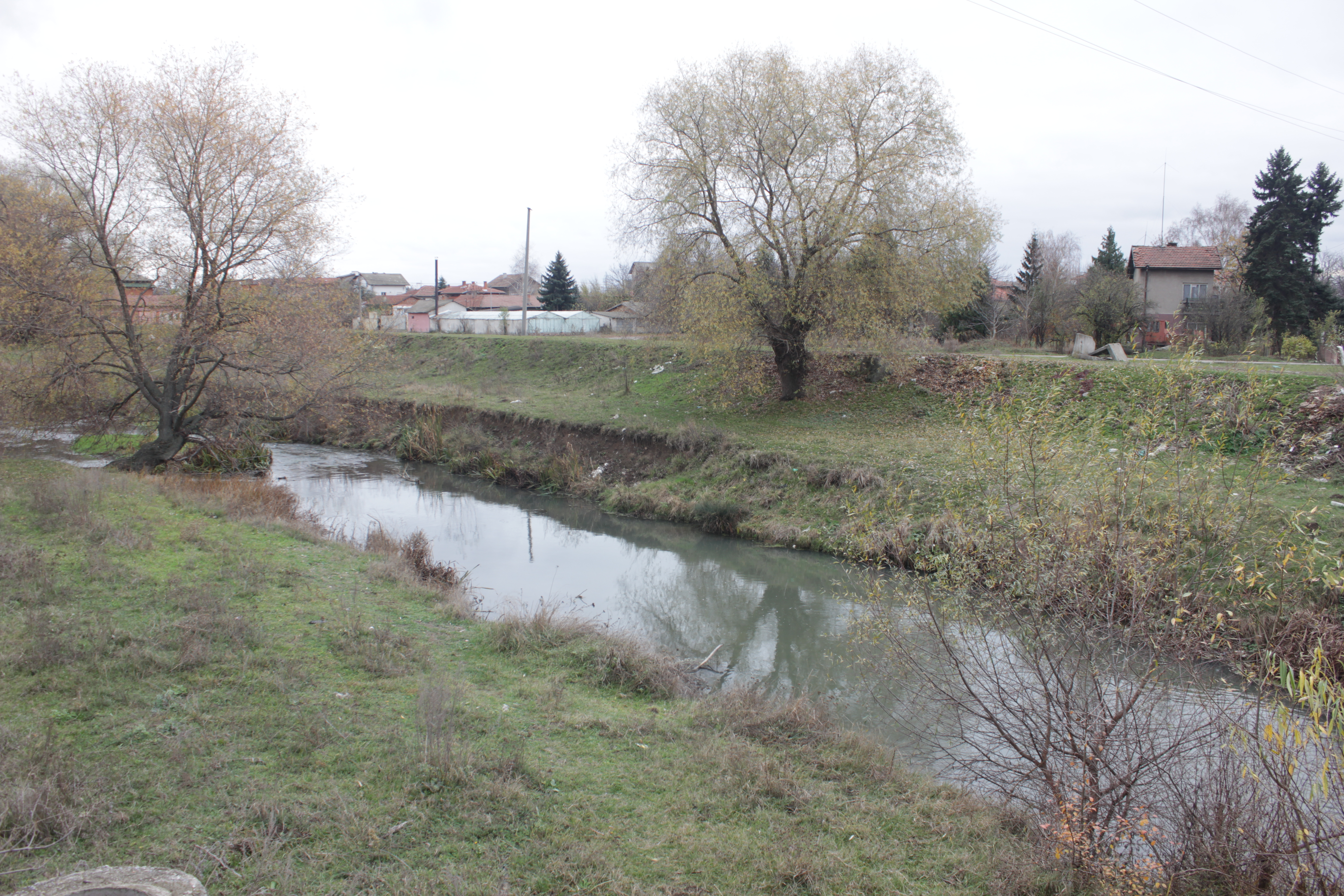 River Blato in Mramor Vicinity